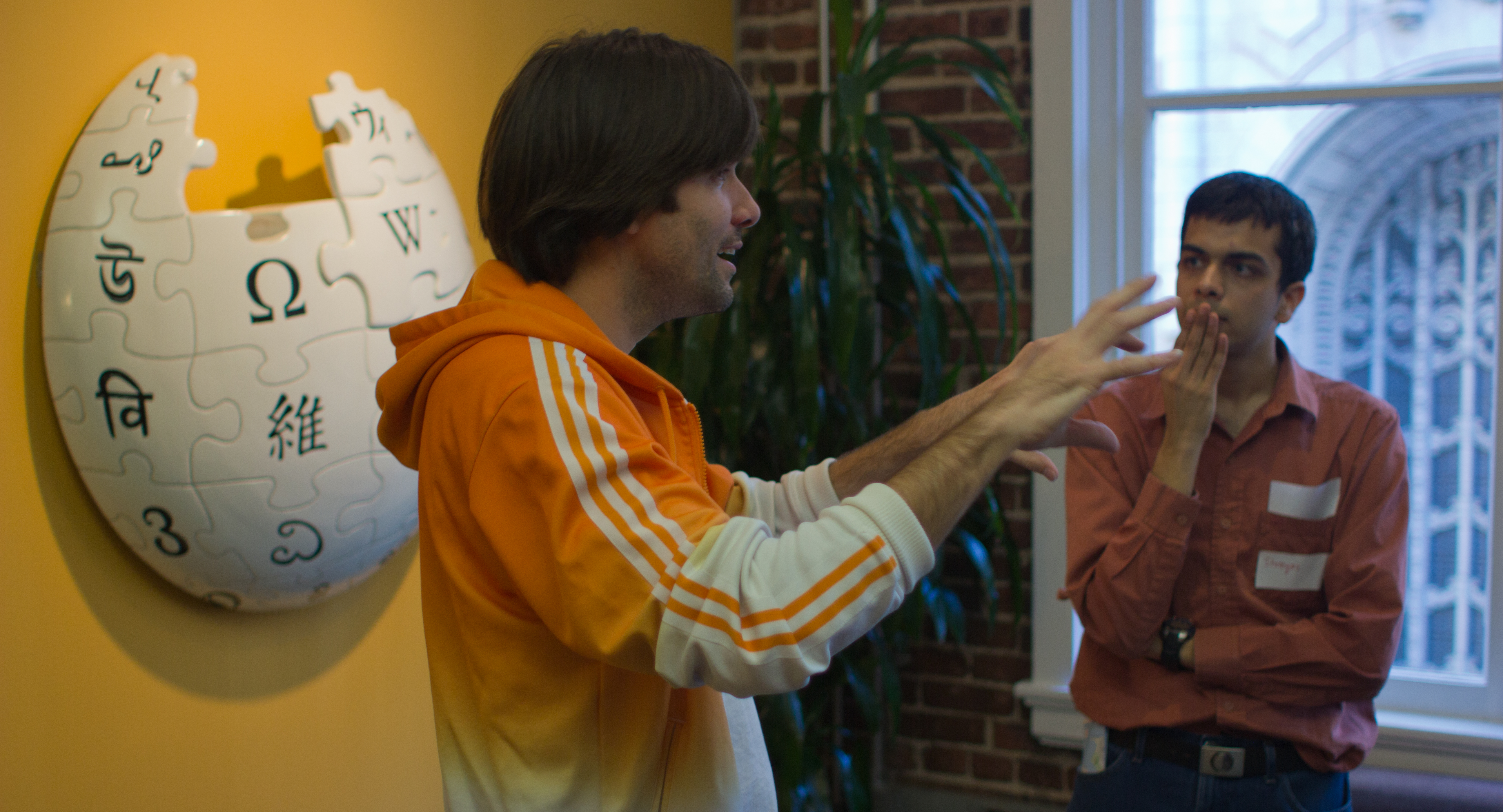 San Francisco Wikipedia Meetup February 2012